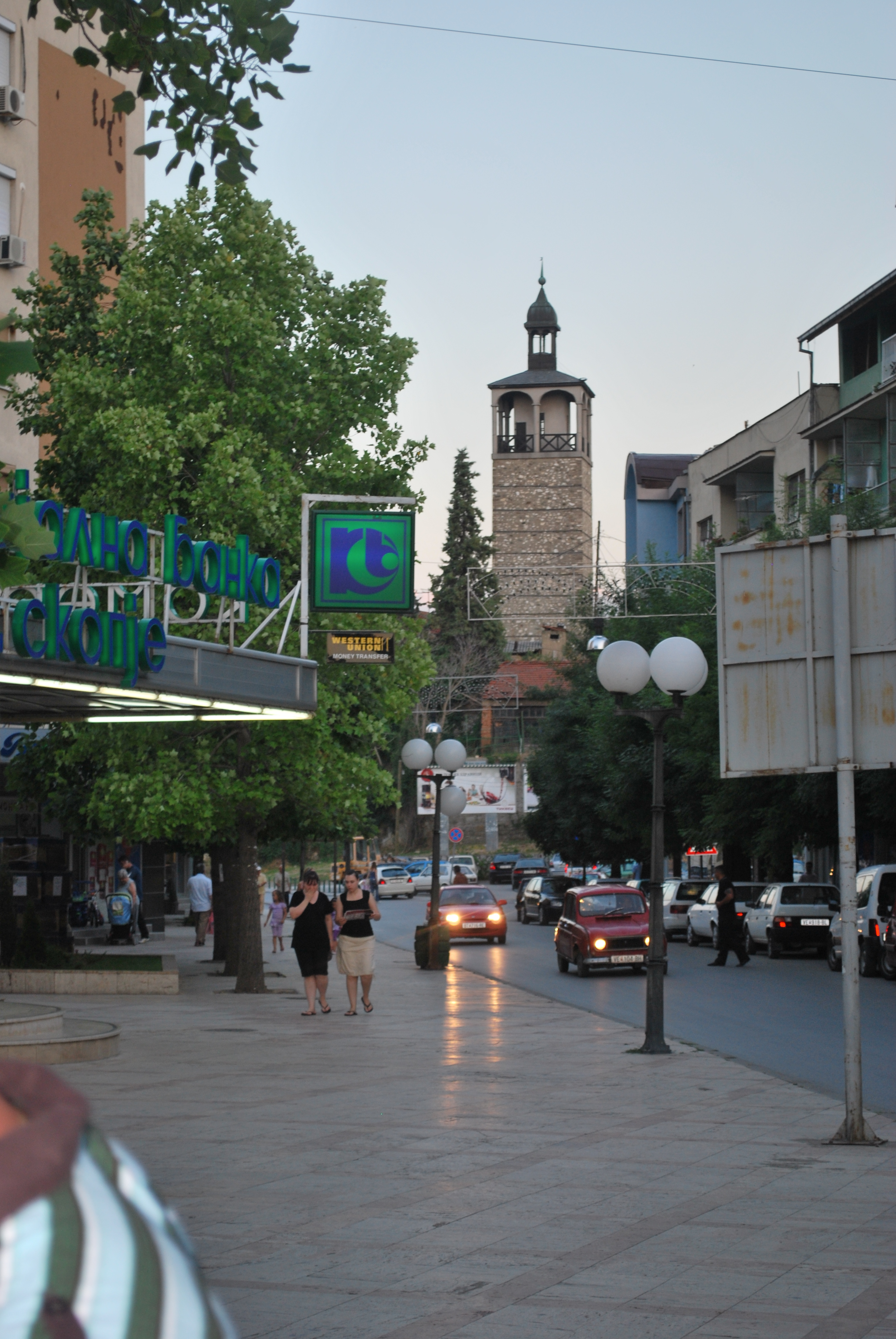 IVeles Clock Tower, Macedonia